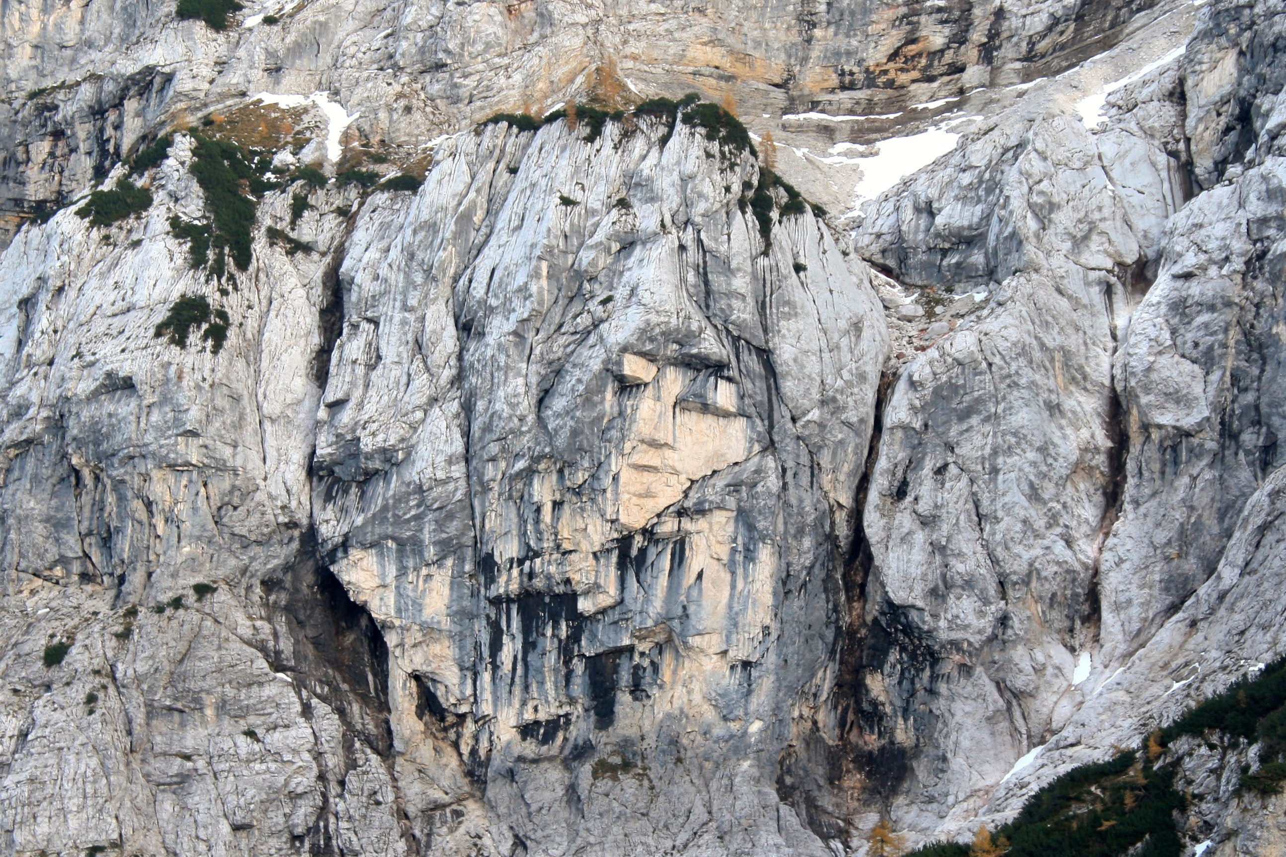 Title in Slovene: Ajdovska deklica This appears on "Prisojnik", a mountain in the Julian Alps (Slovenia)